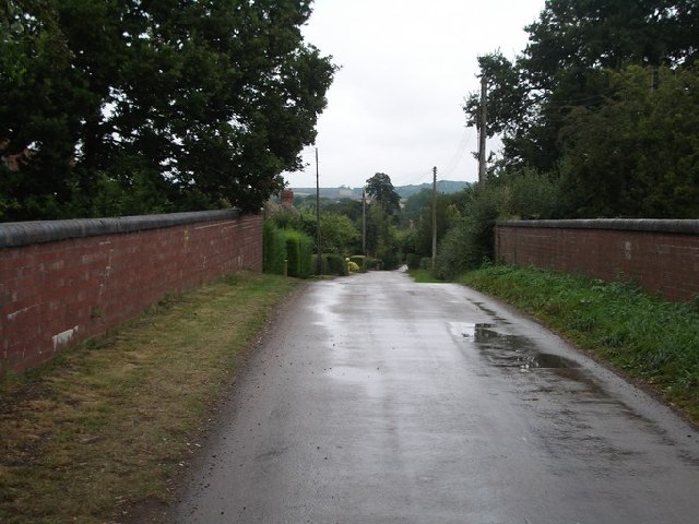 Old railway bridge in Coughton Lane, Coughton. Looking across the old railway bridge over the defunct Redditch-Evesham railway line; the line closed in 1962 and the railway bridge just beside Coughton railway station on Sambourne Lane, the other minor road in this square was recently removed completely.